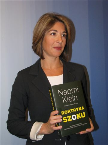 Naomi Klein (b. May 5, 1970), Canadian journalist, author and activist, best known for her book “No Logo”.